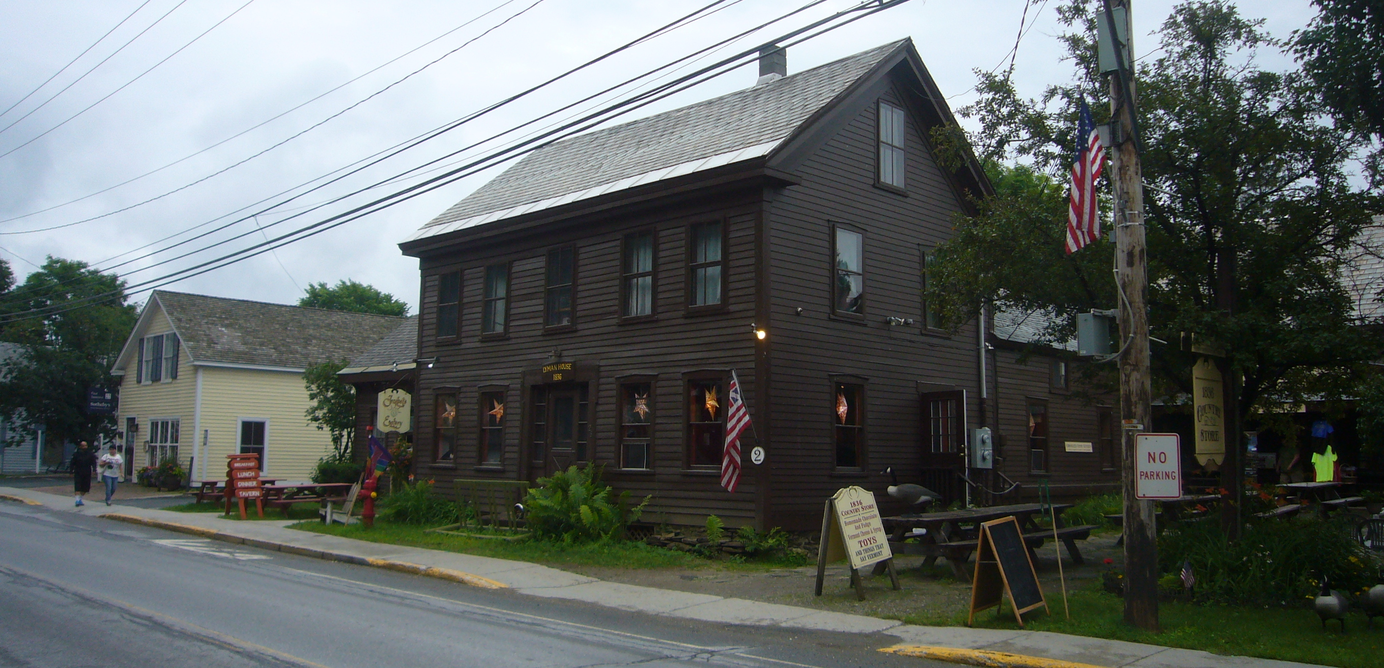 Street scene in Wilmington, Vermont, U.S.A showing the historic Lyman House.